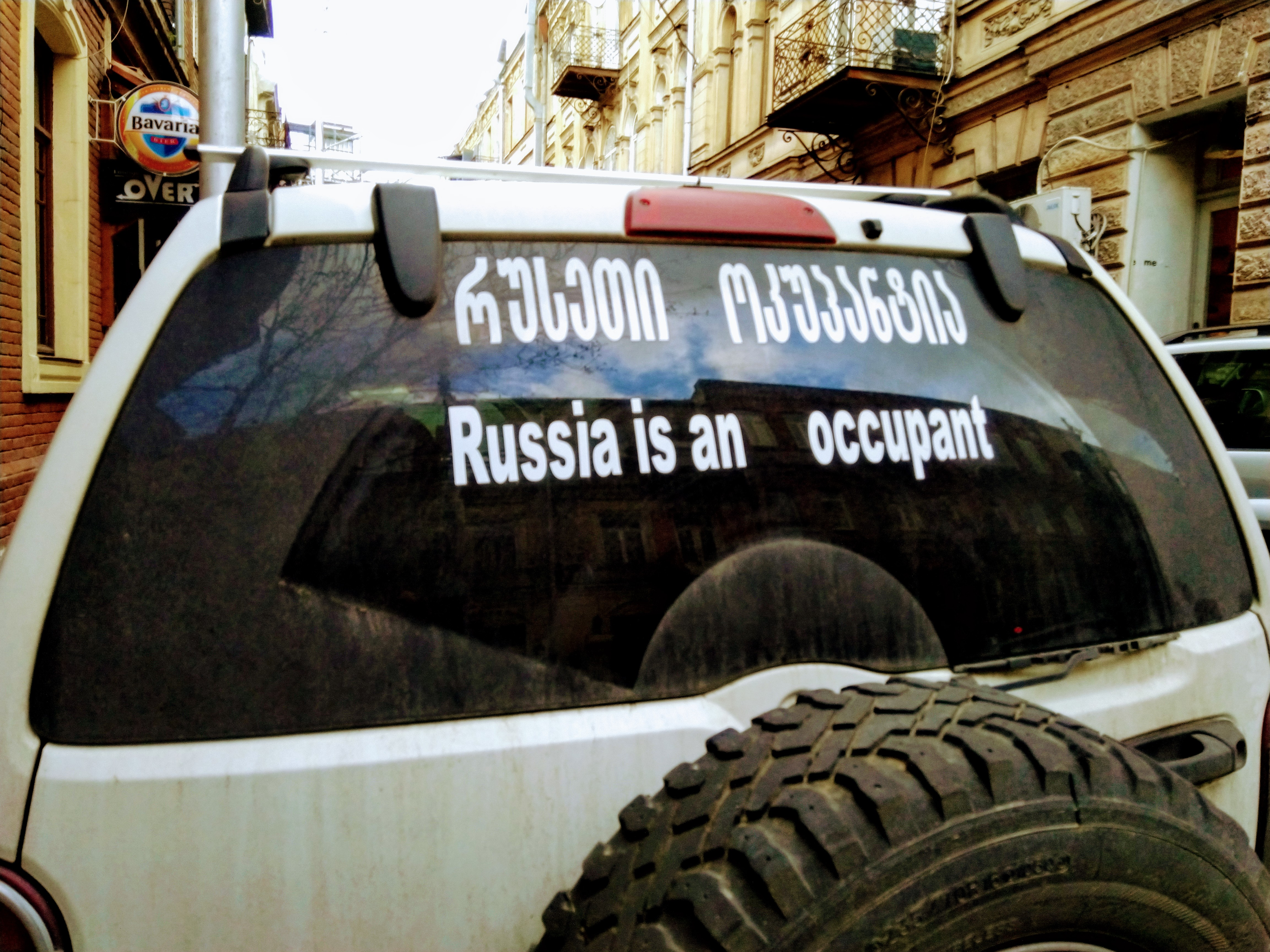 Streets of Tbilisi - "Russia is an occupant"